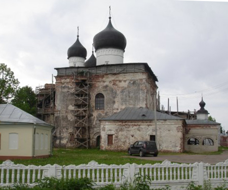 Troitsky cathedral in Klopsky monastery. Veliky Novgorod, Russia